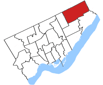 Map of the Scarborough—Rouge River electoral district showing its borders from 1996 to 2004. Created by SimonP.